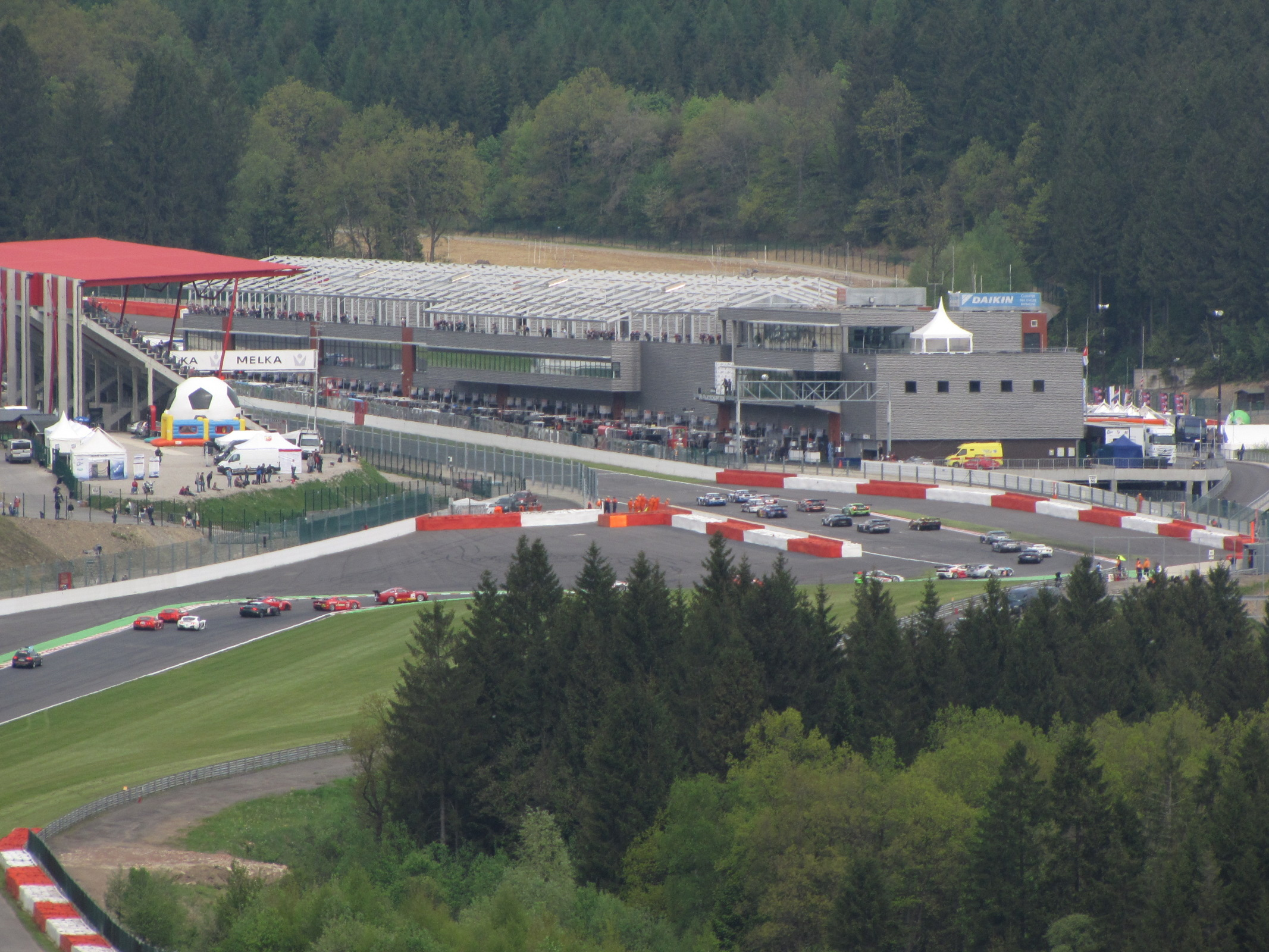 Start of the joint race of the belgien and british GT in Spa 2009.